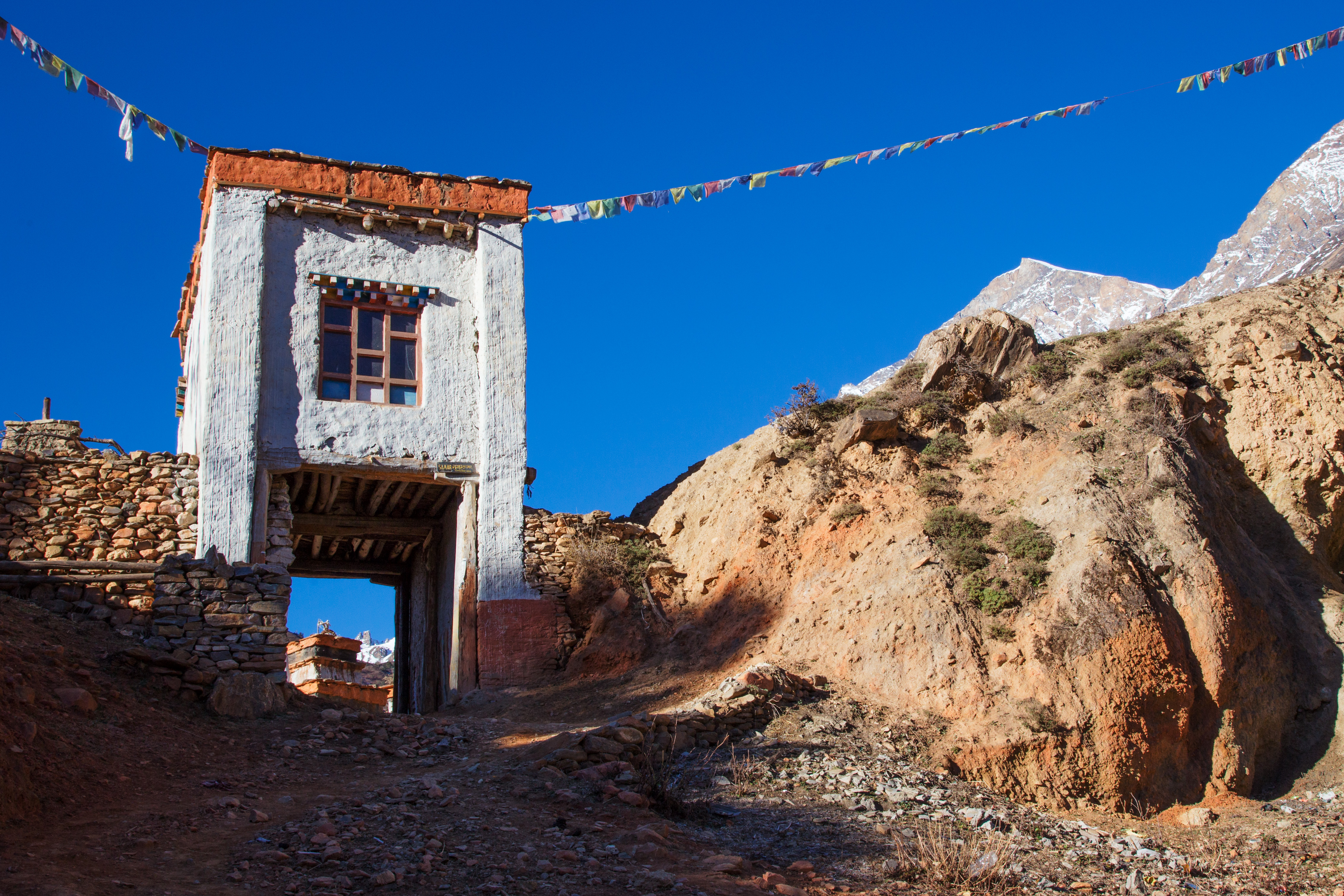 Back in the 15th and 16th centuries, Mustang was the backbone of a lucrative salt-trading route between Tibet and India. Samar was a major halt for horse and mule caravans and as many villages was protected by fortifications. After spending the night in Samar, we had to go through this ancient ortified gate to leave the village.